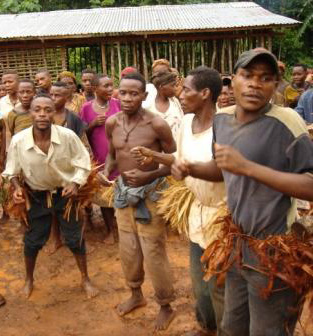 Baka Pygmy dancers in the East Province of Cameroon, June 2006.